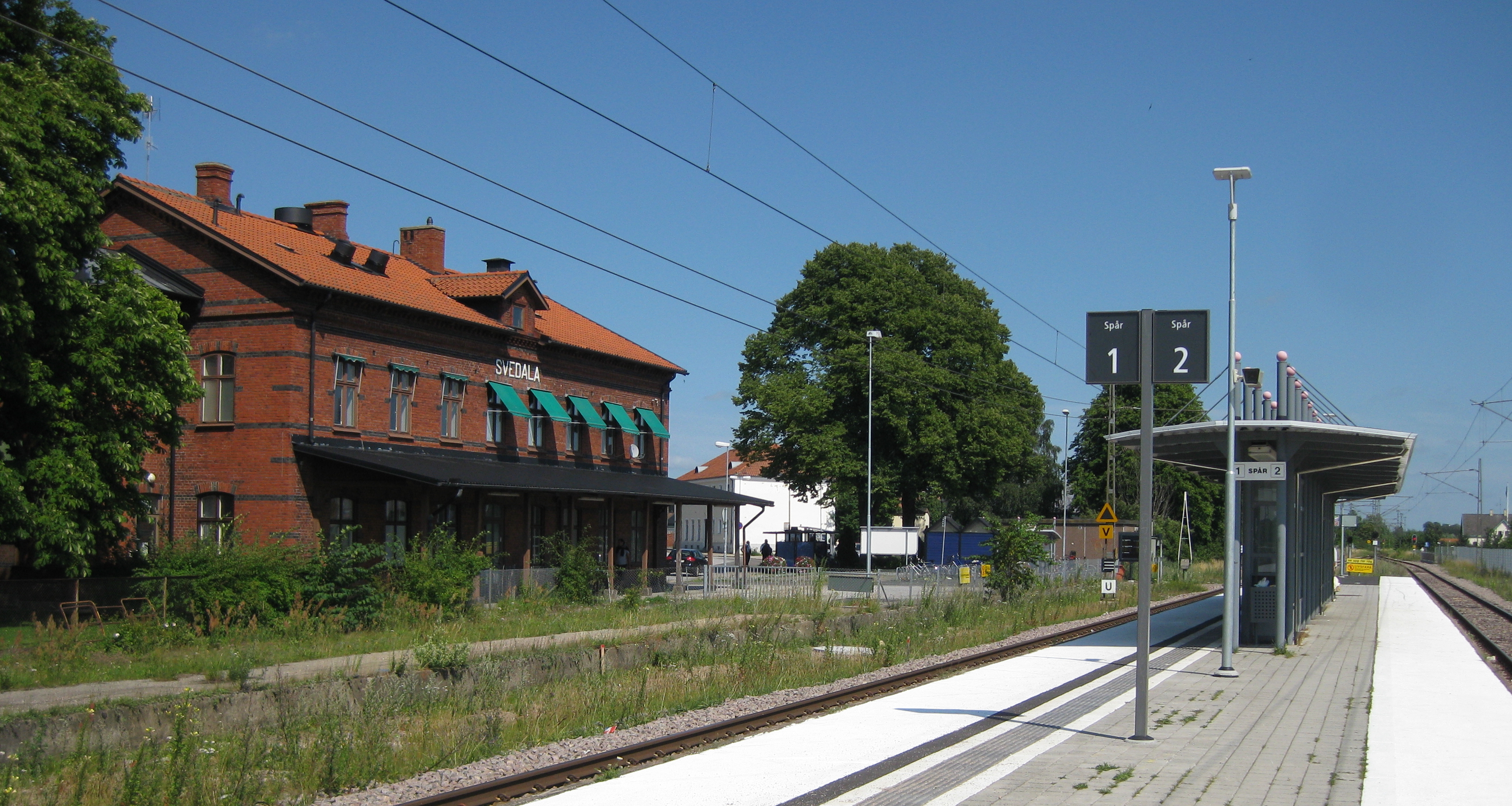 Svedala railway station in Scania, Sweden